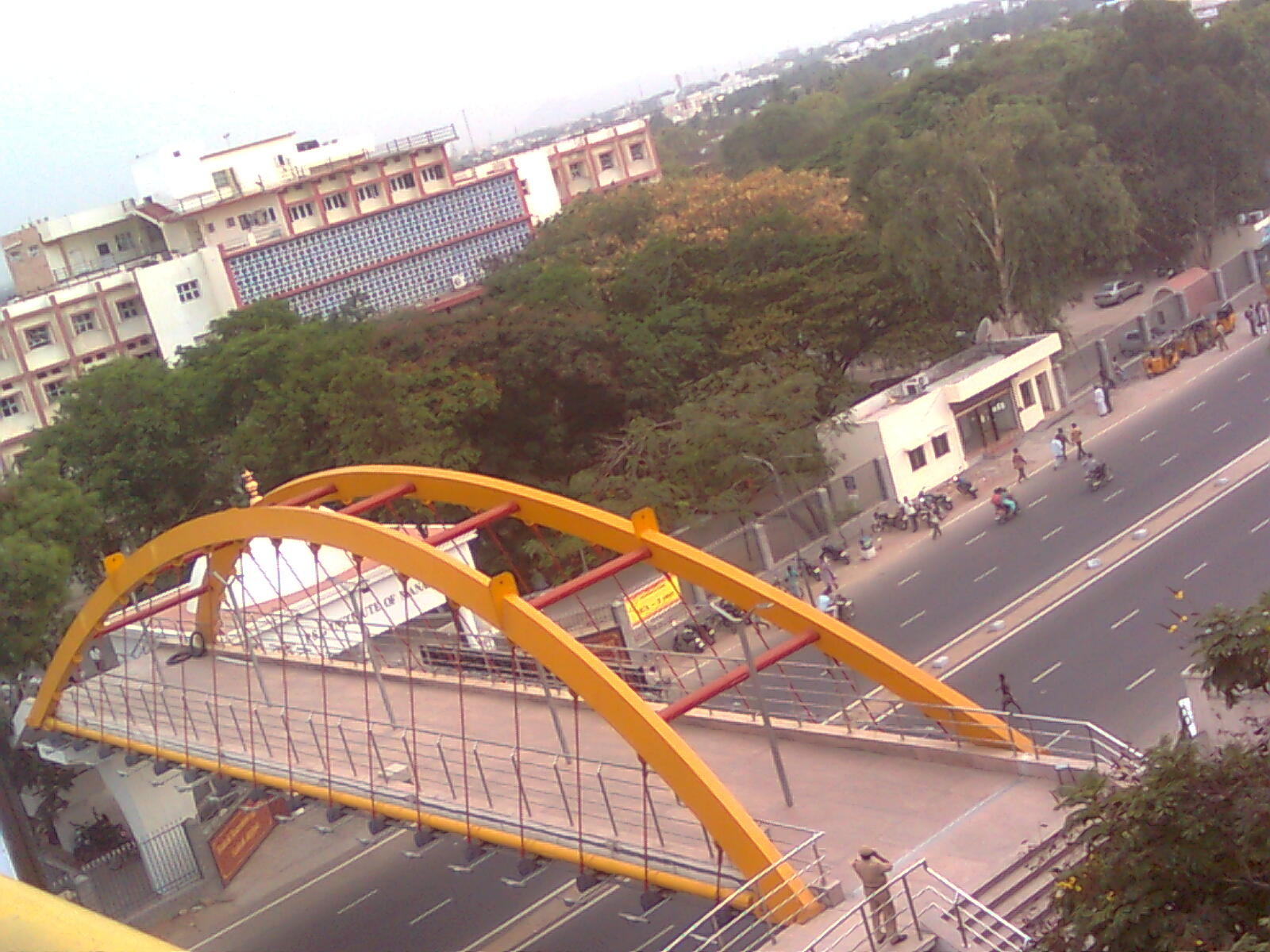 psg tech hostel photo that connects hostel and college